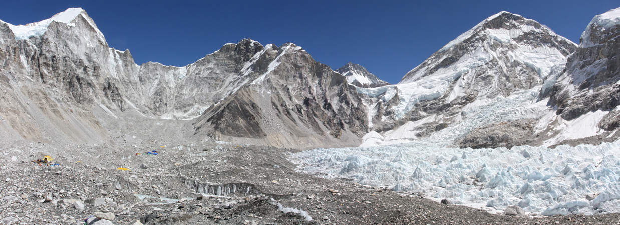 Panoramic photo from Mount Everest Base Camp. March 2012.